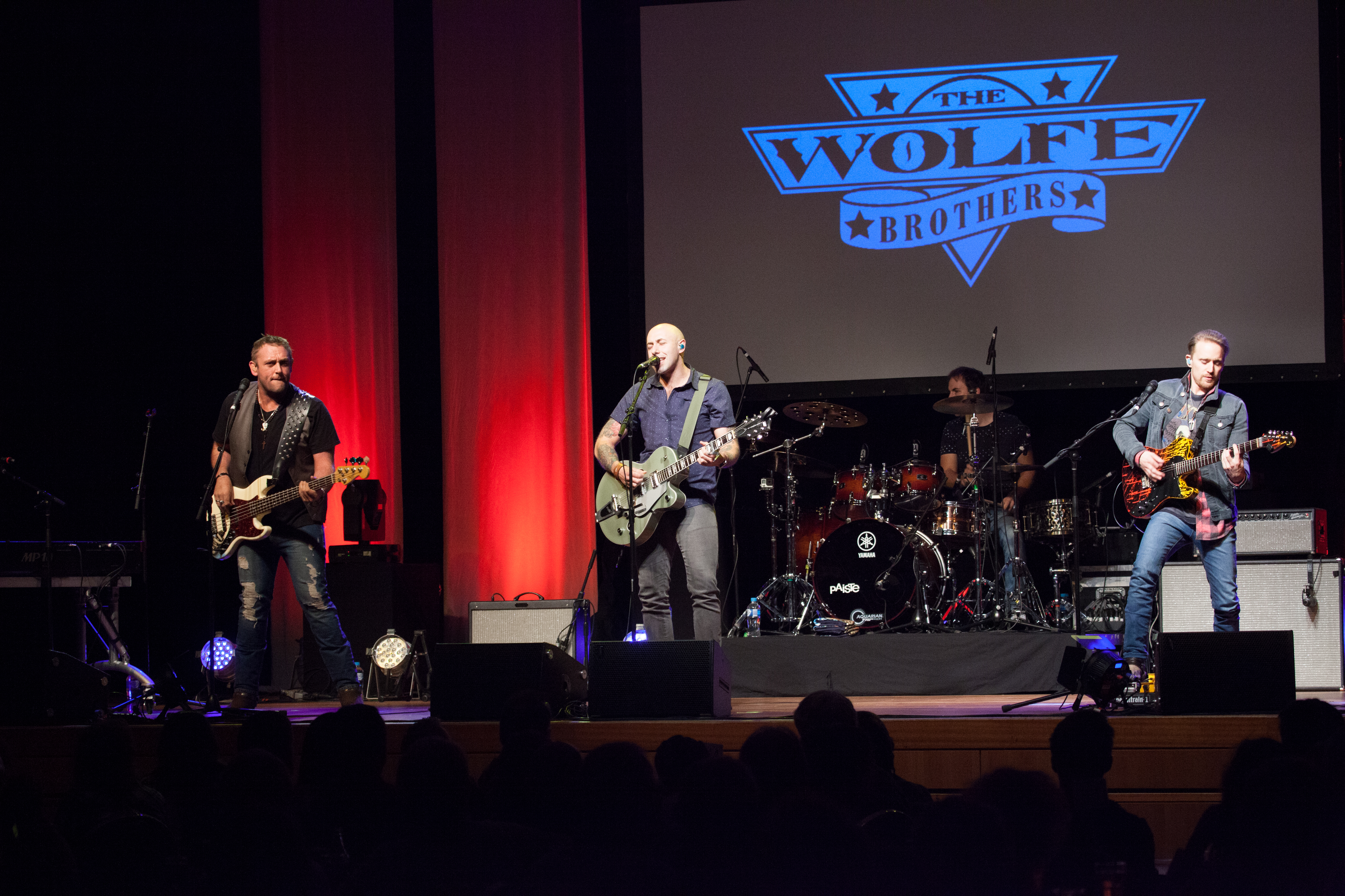 Wolfe Brothers at Revesby Workers on June 10, 2016.